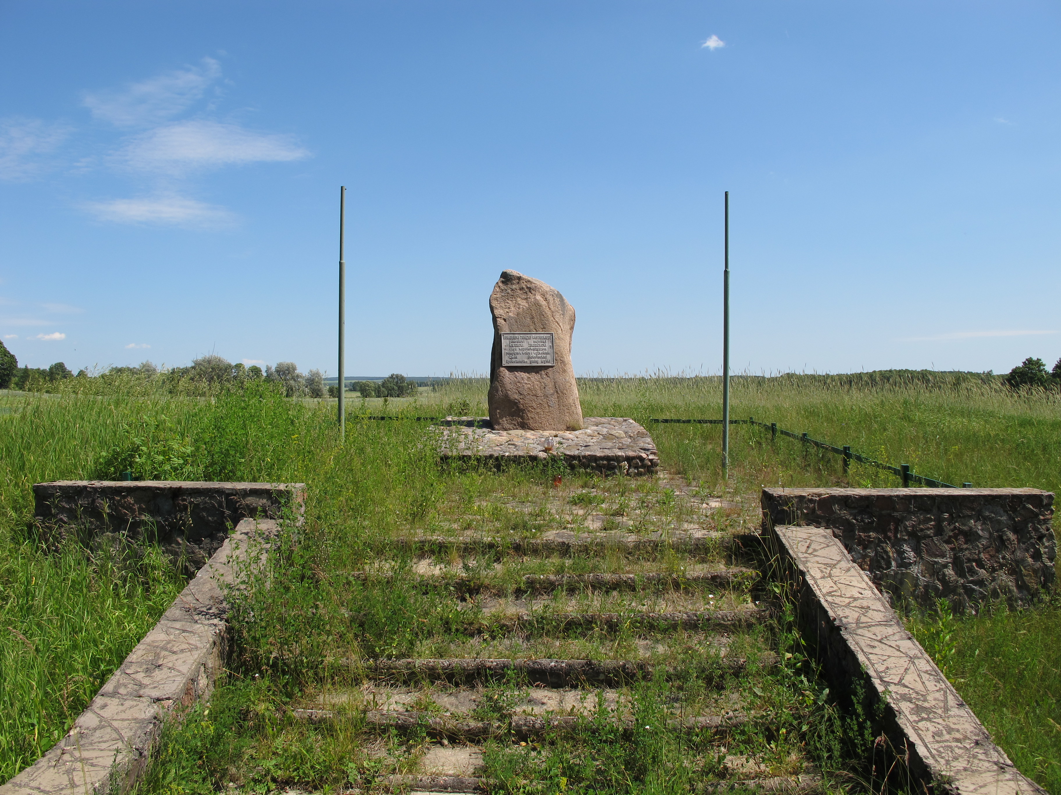 Monument at the place of death (24 july 1944) of sovet general, Wiktor Żołudiew — leader of the 35th rifleman corps of the 3rd army of the second Belarusian front, near Plebanowo village, gmina Krynki, podlaskie, Poland